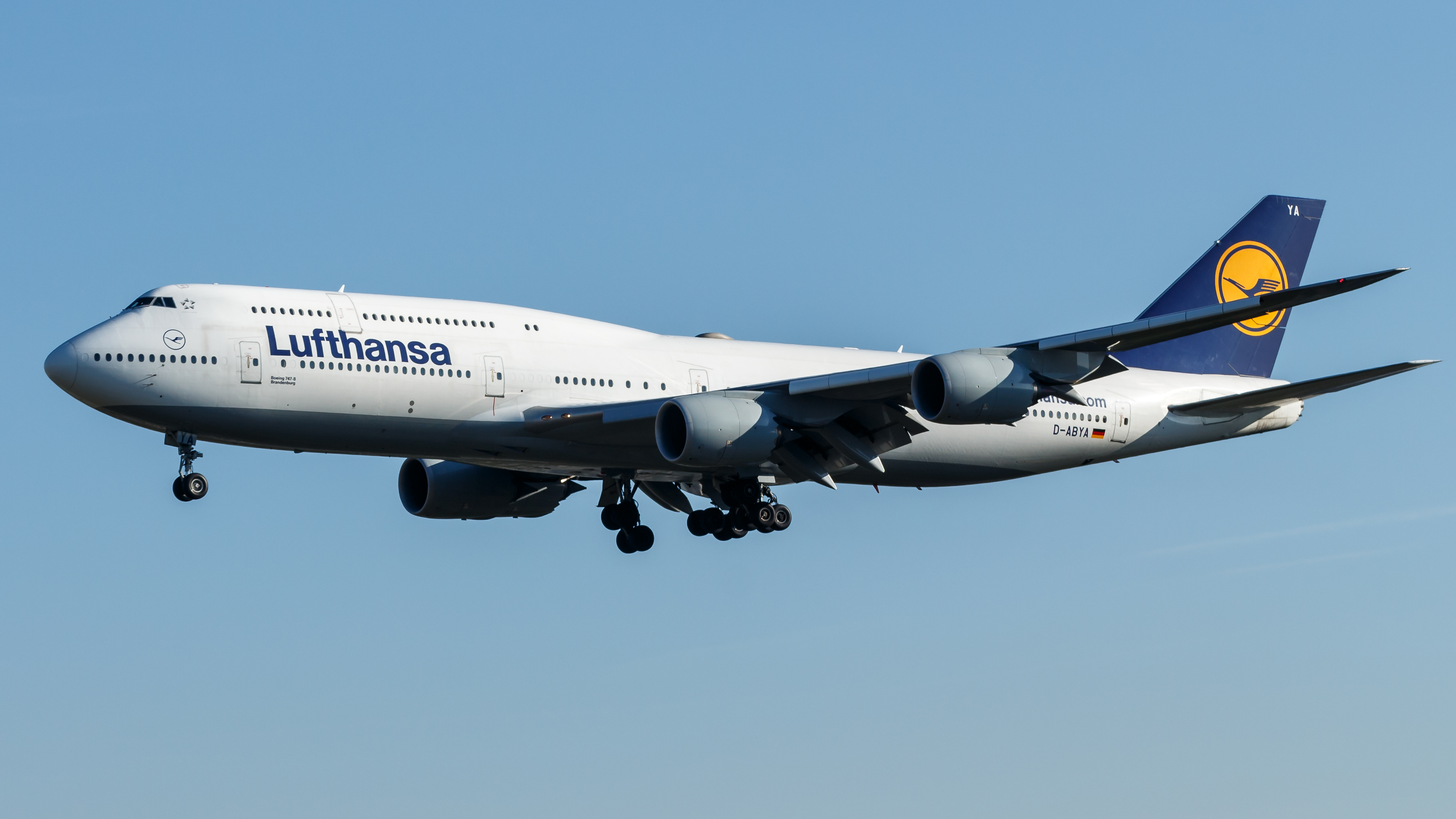 Lufthansa Boeing 747-8 at Frankfurt Airport